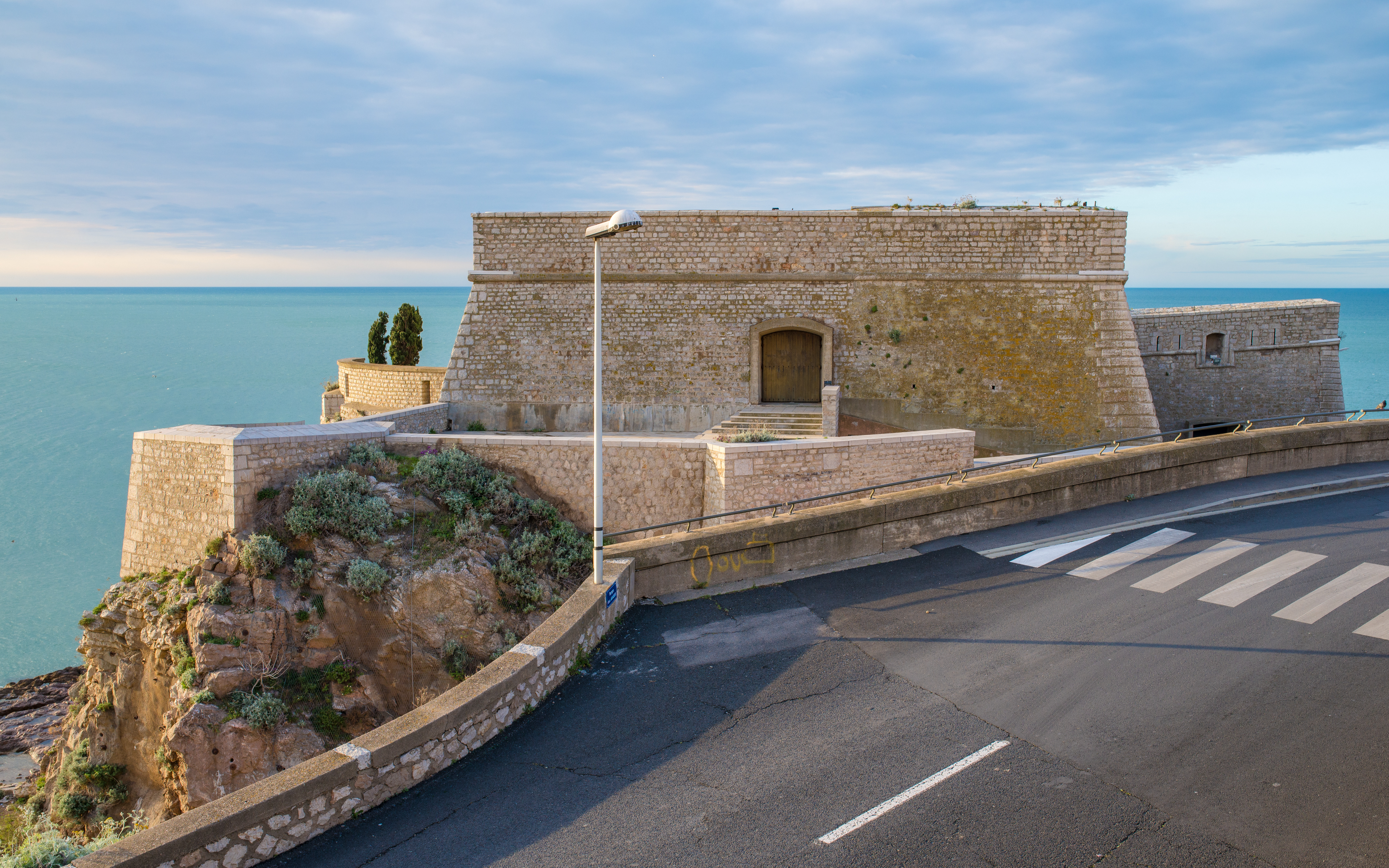 The Théâtre de la Mer formerly Fort Saint Pierre built between 1743 and 1746 by engineer NIQUET after the attempt of invasion by England in 1710, and in the background the Mediterranean Sea. View from north in the Grande Rue Haute Street. Sète, Hérault, France.